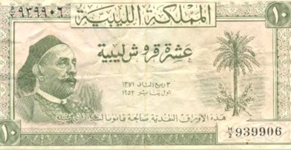 Ten Libyan piasters (one-tenth of pound).